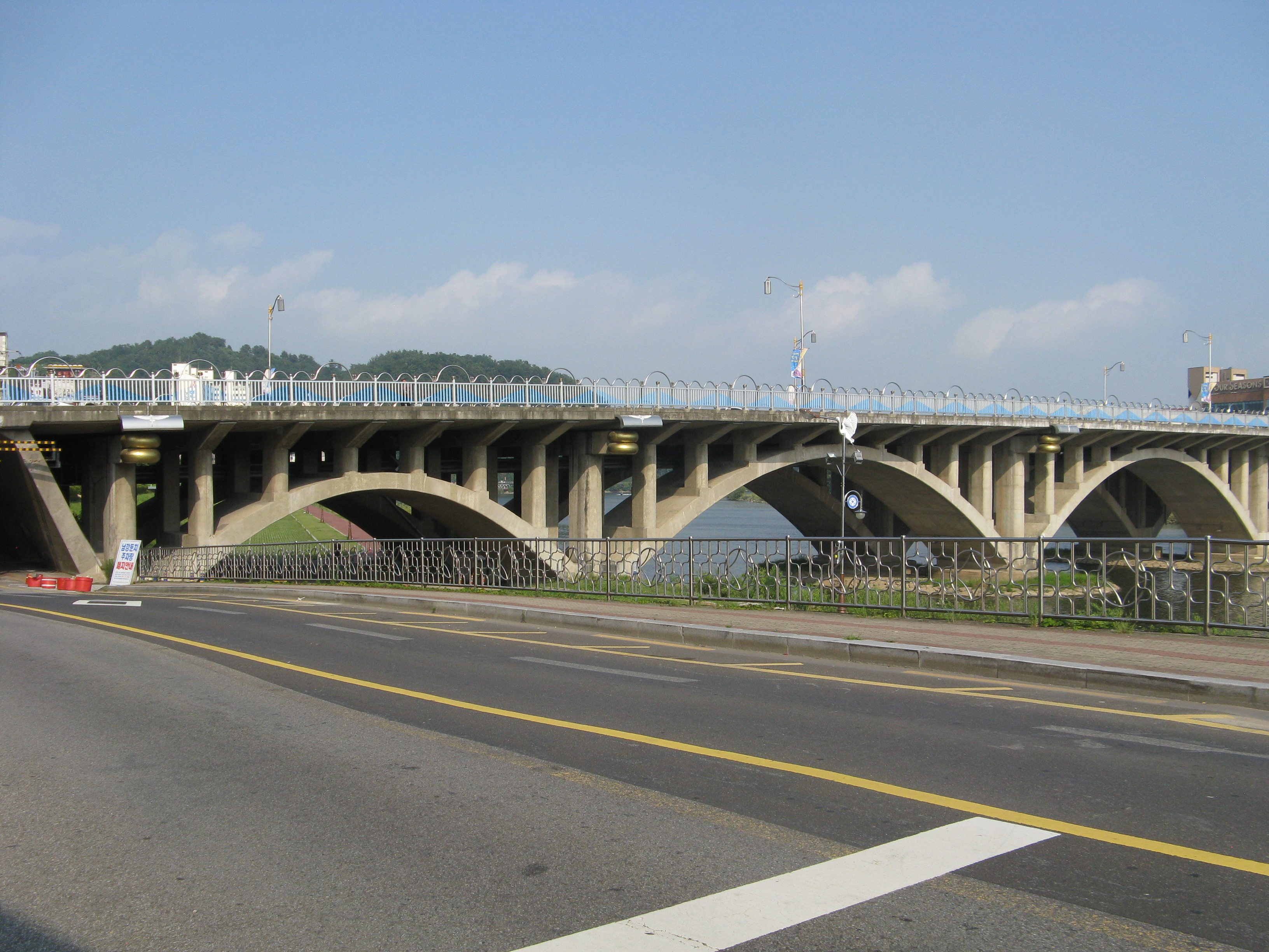 Bridge over the Nam river. The golden rings on top of each pillar commemorate Nongae's legend